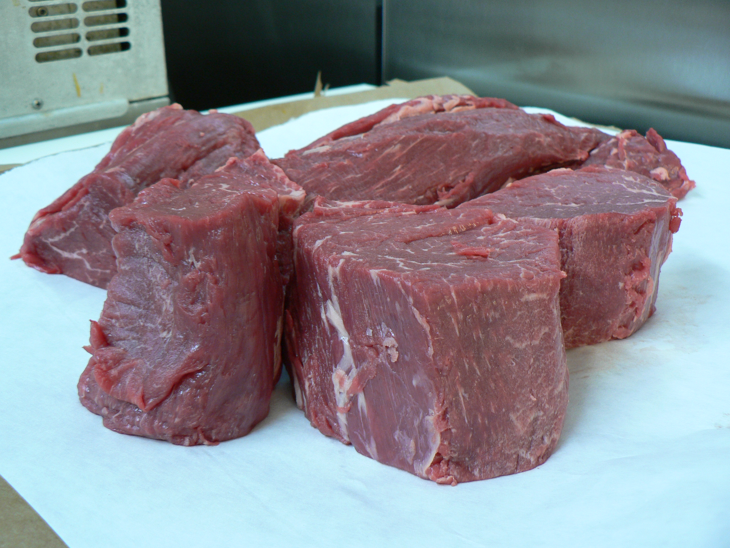 Stu spivack